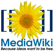 MediaWiki logo. Text: 🌻 MediaWiki Because ideas want to be free.